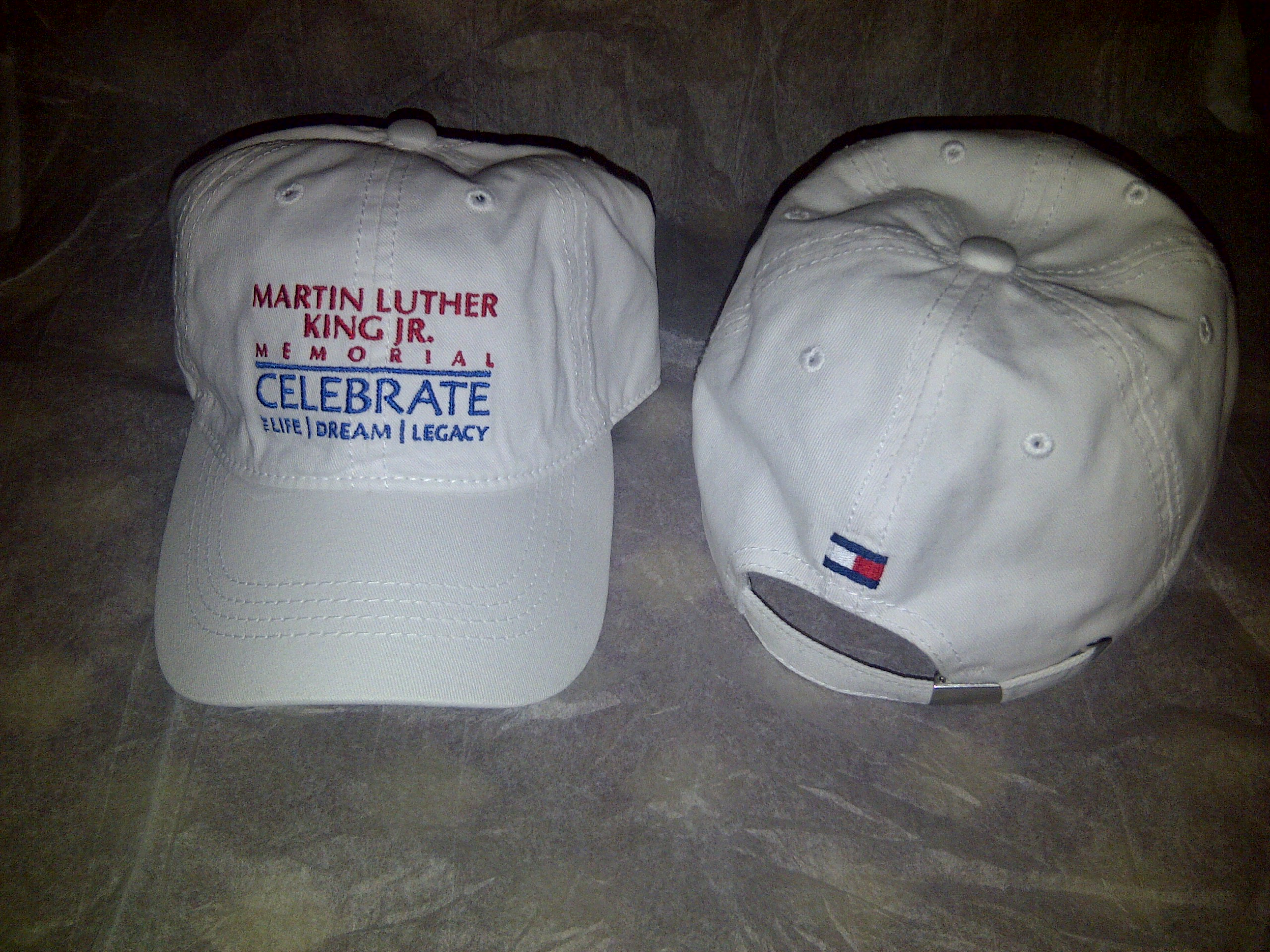 Sponsor Tommy Hilfiger Corporation donated hats for attendees at the October 16, 2011 Martin Luther King, Jr. Memorial dedication ceremony